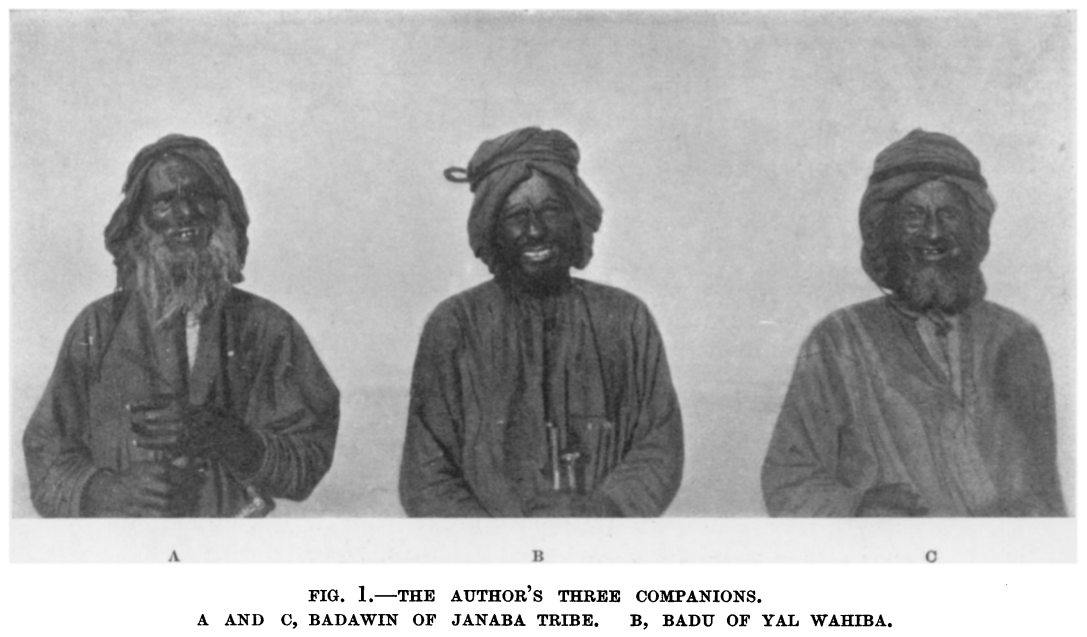 Badawin of Janaba tribe, and Badu of Yal Wahiba.